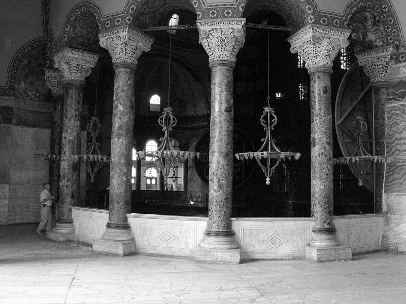 Hagia Sophia or Aya Sofya, Istanbul. Photographer: Osvaldo Gago